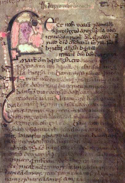 Facsimile of folio 53 of the Book of Leinster, now in the library of Trinity College, Dublin